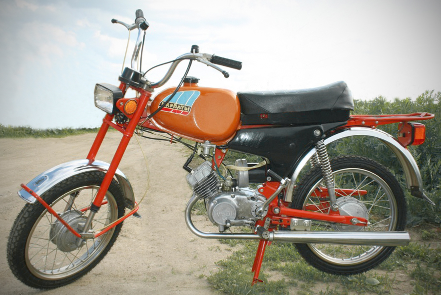 USSR (Ukraine) moped LWZ "Karpaty-2" 1986